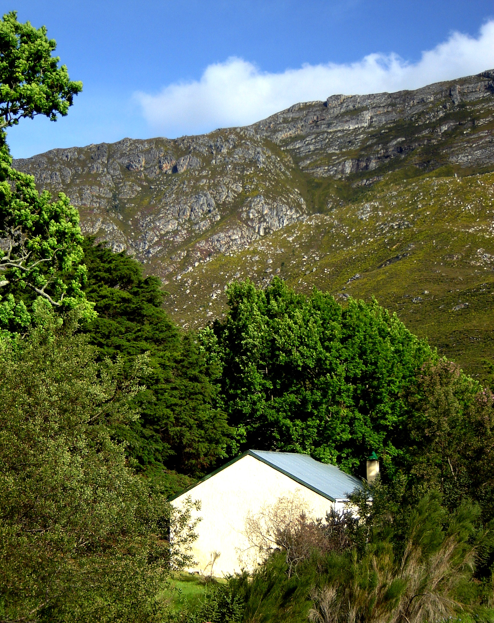 Old Toll House in Garcia Pass, Riversdale, at the foot of the Sleeping Beauty mountain peak. This media shows a South African Protected Site with SAHRA file reference 9/2/079/0004.